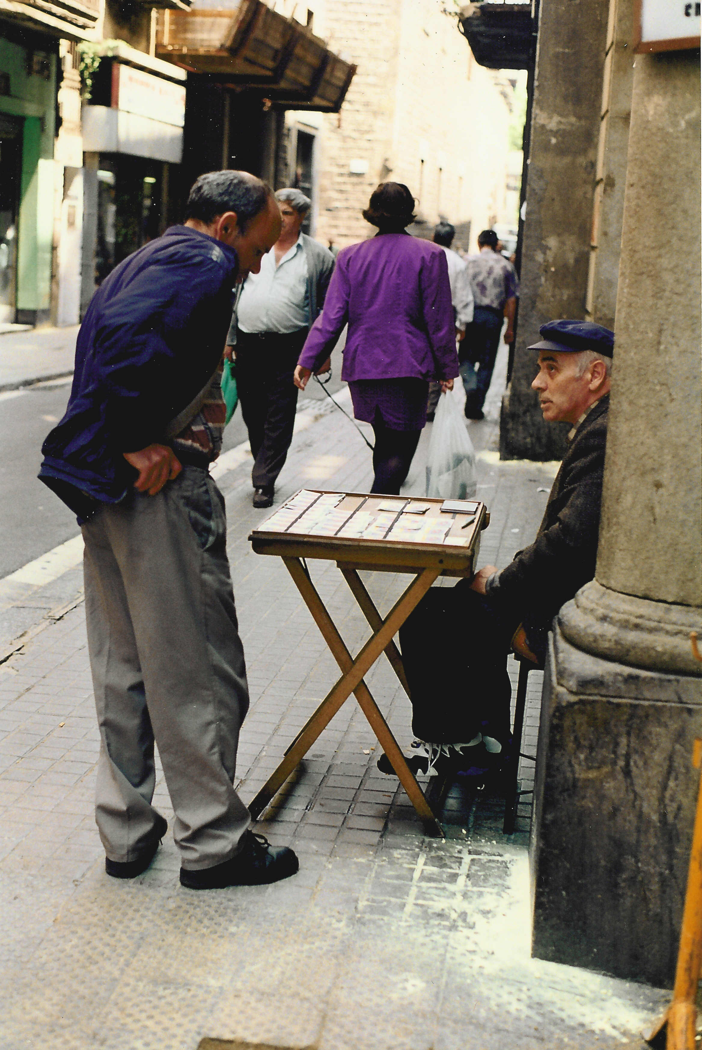 Man selling lottery tickets in front of the Casa Bernardí Martorell. Carrer Hospital, 99 - passatge Bernardí Martorell, Barcelona.